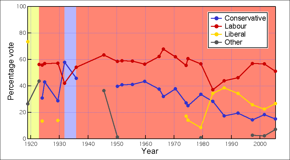 United Kingdom general election results for Sheffield Hillsborough constituency 1918–2005. © Jeremy Atherton 2005.